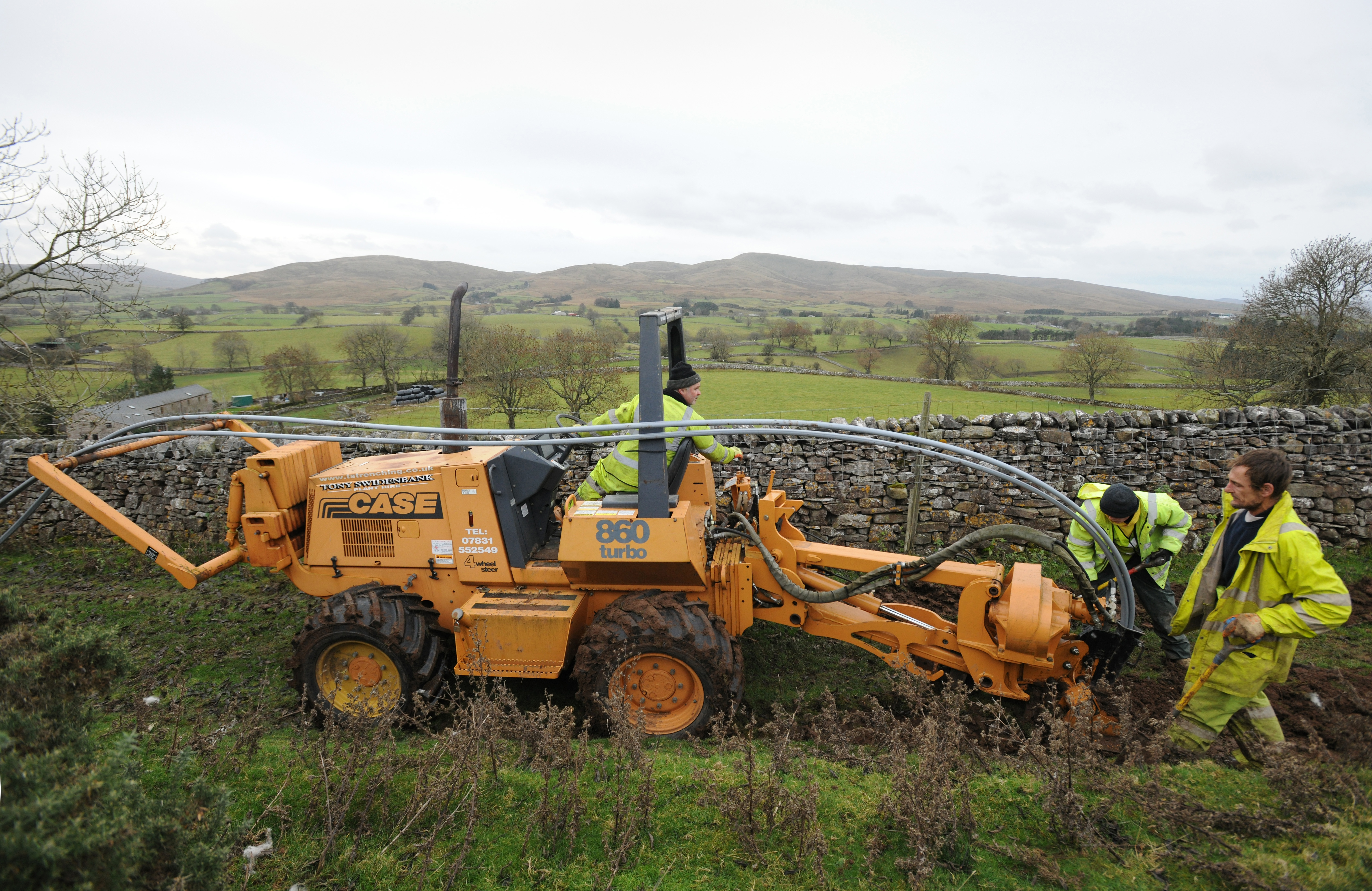 Photo shows: Engineers laying a cable as part of a community dig near Fell End Cumbria. Connecting Cumbria is one of the biggest telecoms engineering programmes the county has ever seen. Openreach, BT’s local network business will lay around 3,900 kilometres of optical fibre cable and install a total of around 550 new fibre broadband cabinets throughout the county during the entire programme. It is estimated that engineers will complete over a million man hours of work planning and building the network during the lifetime of the project. Connecting Cumbria will enable 93 per cent of Cumbrian properties to have access to high-speed fibre broadband by the end of 2015 and other properties to get speeds of at least two megabits per second. The Connecting Cumbria partnership builds on BT’s commercial rollout, which will bring high-speed broadband to more than 112,000 homes and businesses across Cumbria by the end of this Spring 2014. For further info contact: BT Regional Press Office on 0800 085 0660. All our news releases can be found at Photo: Johnnie Pakington